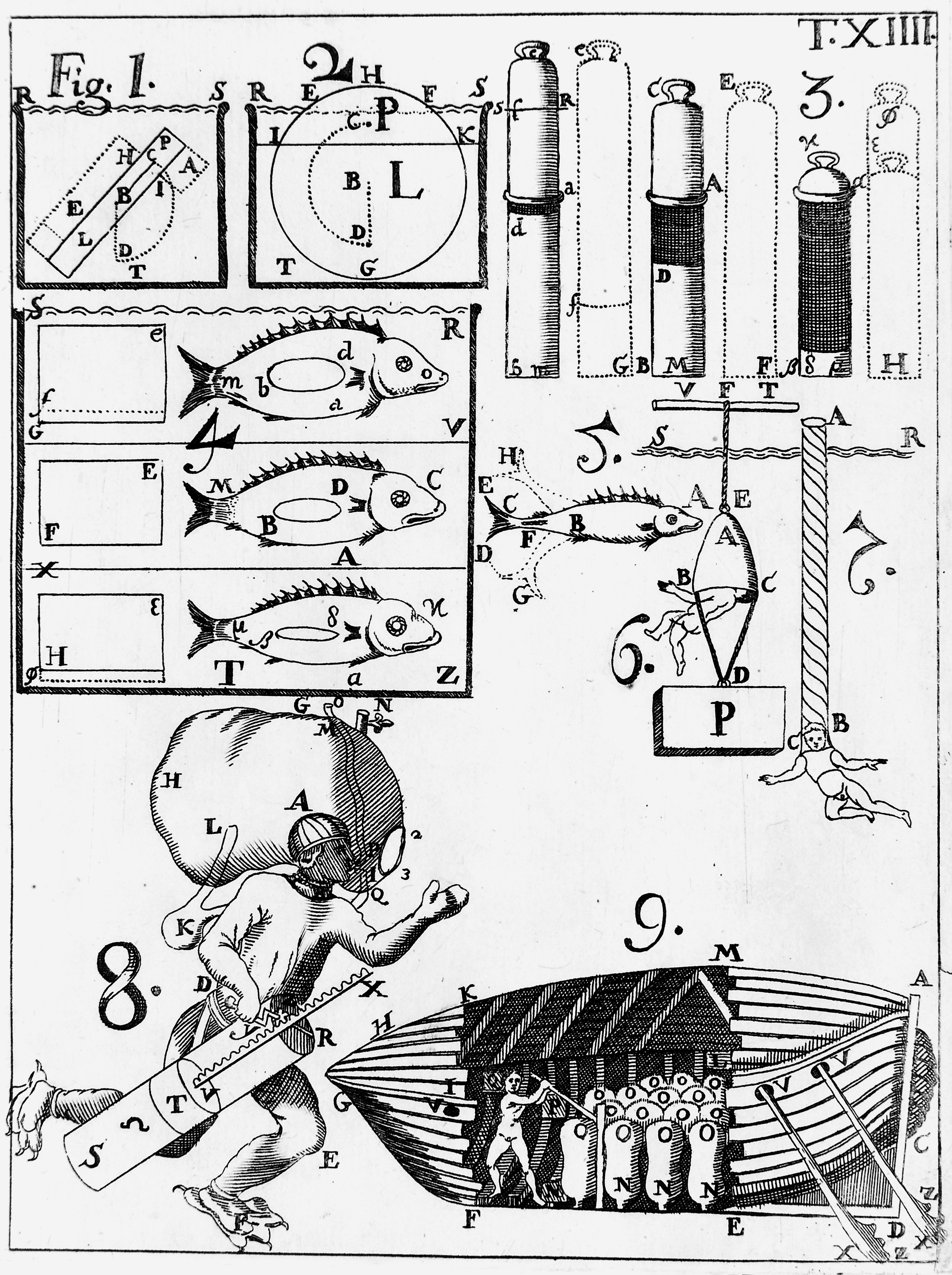 The action of swimming fish and man Rare Books Keywords: Giovanni Alfonso Borelli